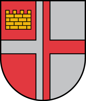 Coat of arms of Ikšķiles novads, Latvia